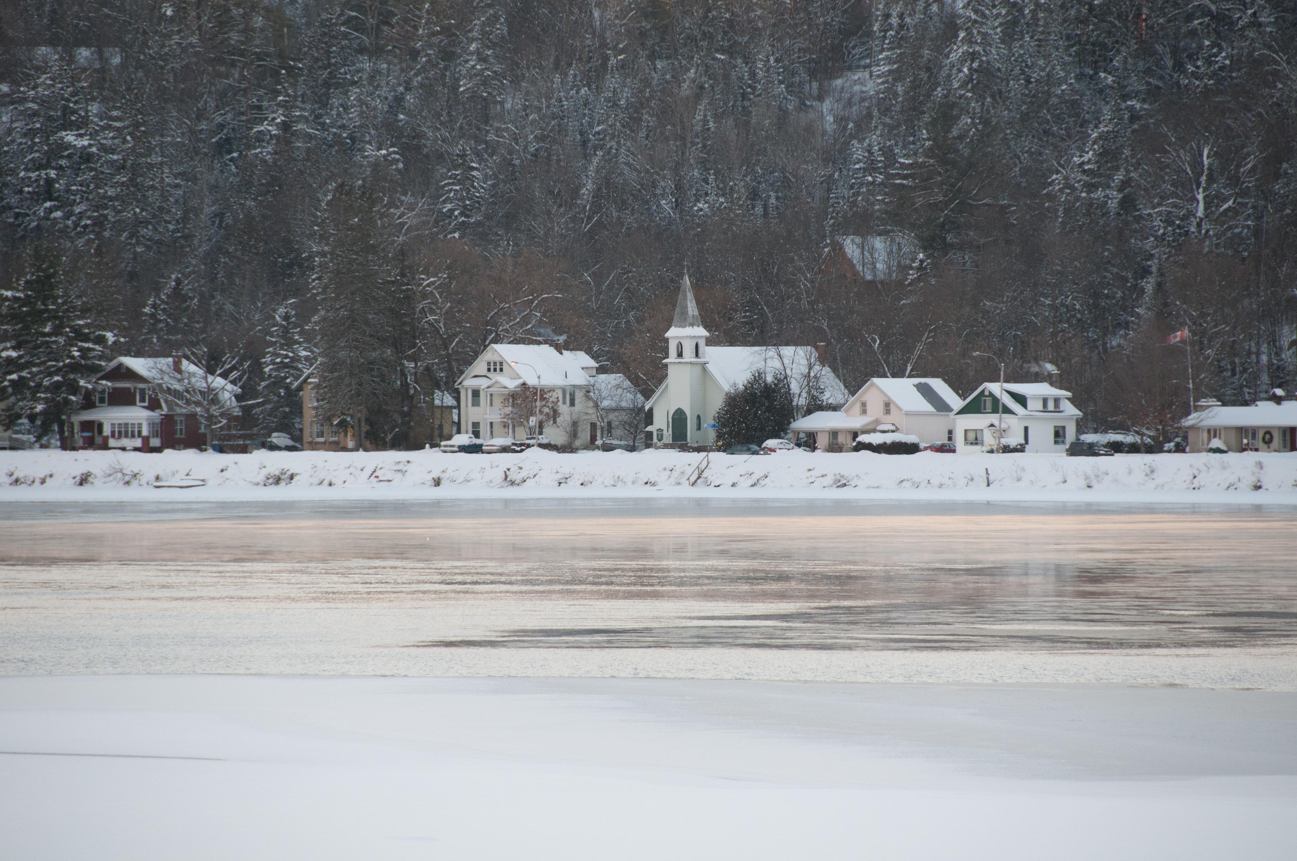 A view of Wakefield, Quebec, from Chamberlain's Lookout. The title of this work at its source is: Chamberlain's Lookout.